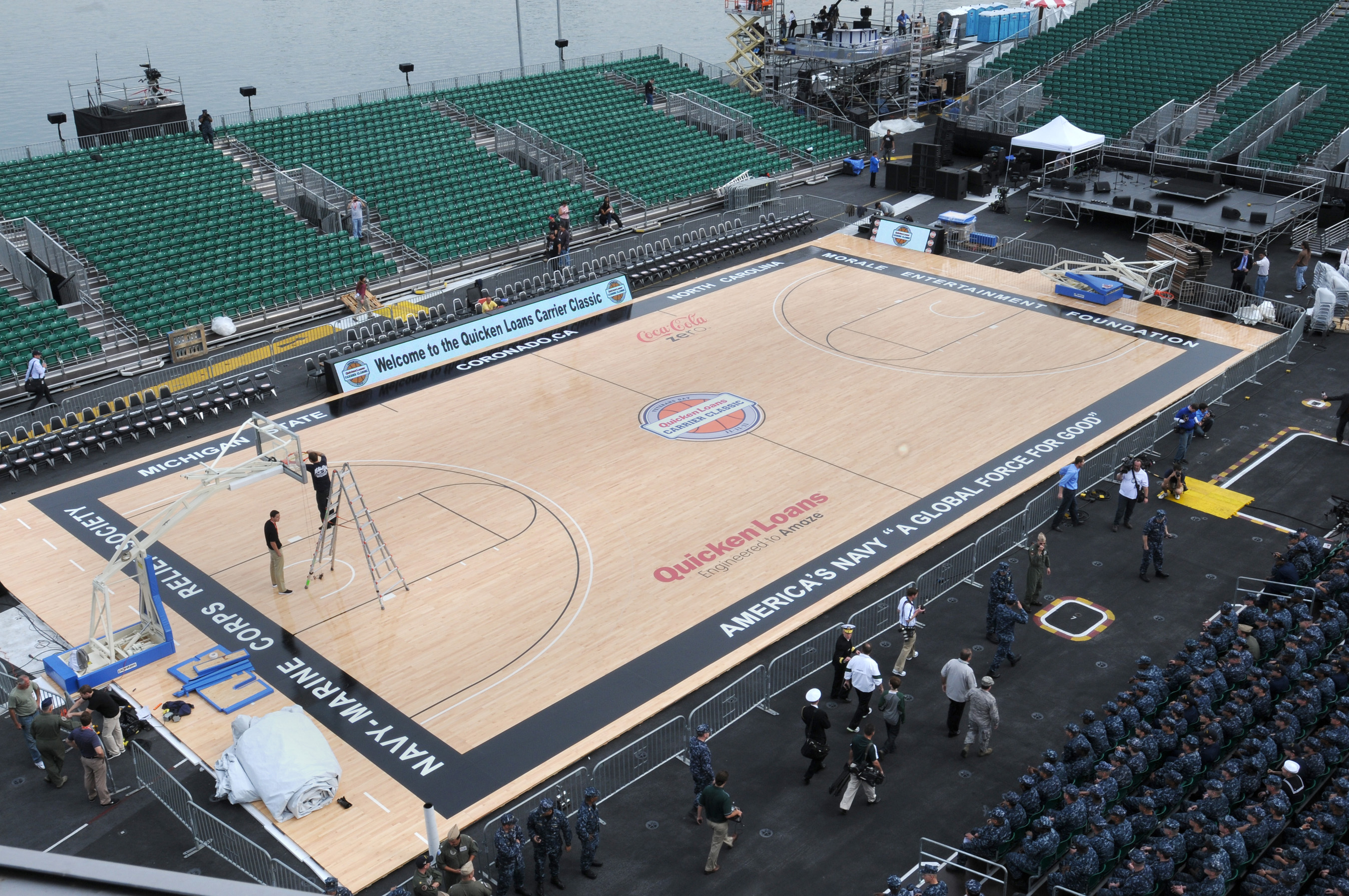 SAN DIEGO (Nov. 10, 2011) Officials measure the basket as Sailors fill the stands in the basketball arena on the flight deck of the Nimitz-class aircraft carrier USS Carl Vinson (CVN 70) for an all-hands call. Carl Vinson is hosting the Michigan State Spartans and the University of North Carolina Tar Heels for the inaugural Quicken Loans Carrier Classic basketball game on Veteran's Day, Nov. 11. (U.S. Navy photo by Mass Communication Specialist Seaman Apprentice Dean M. Cates/Released)